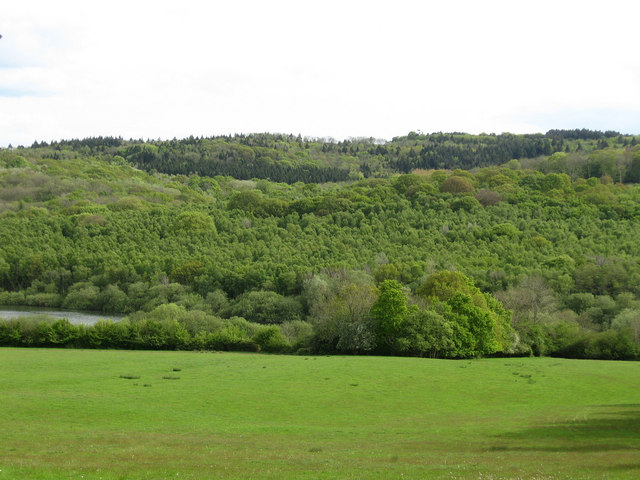 Darwell Wood Viewed from Mountfield Lane with a small part of Darwell Reservoir to the left.